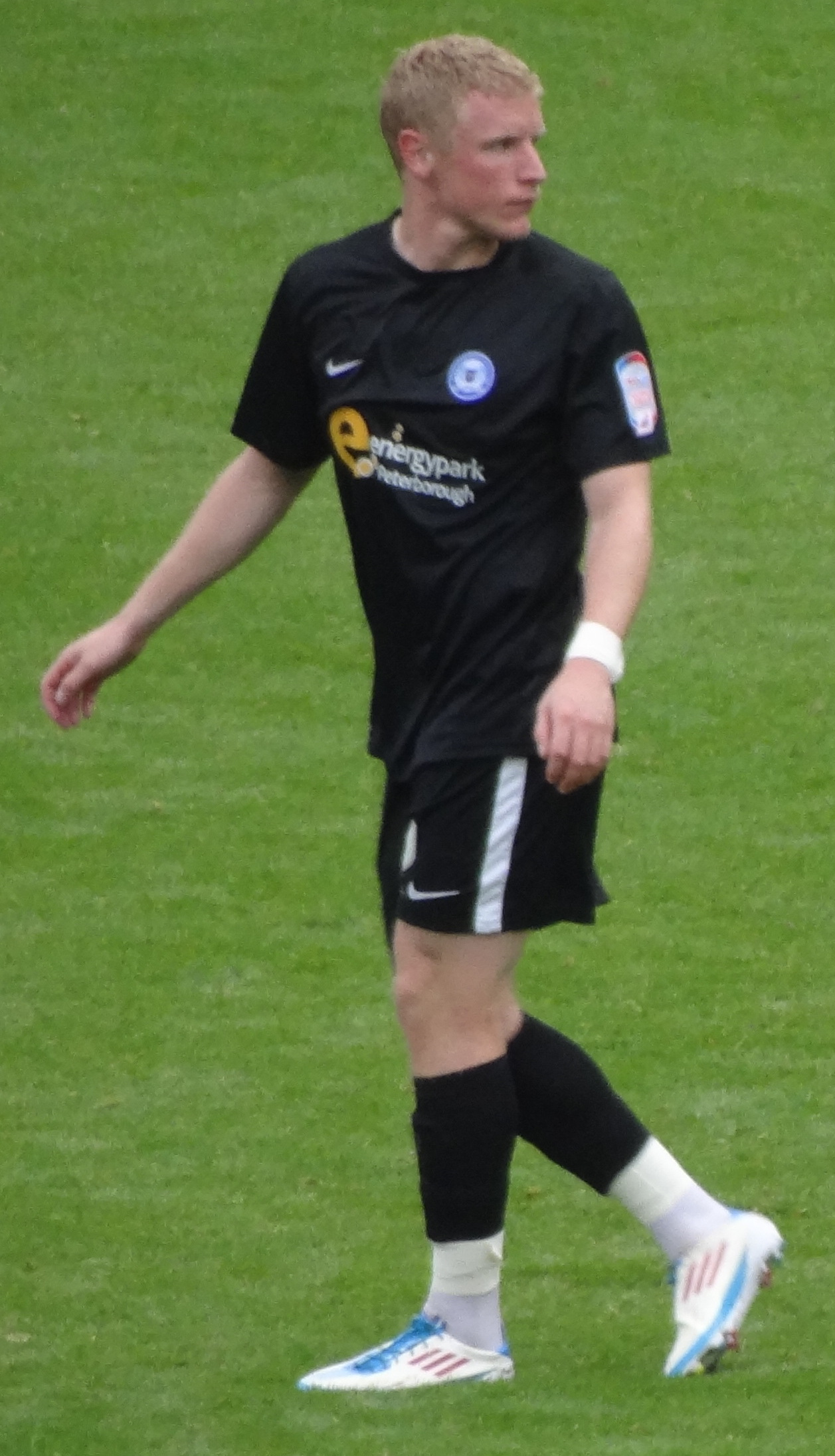 Craig Alcock from West Ham vs Peterborough